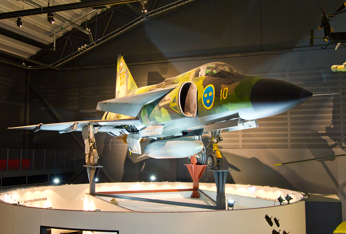 SAAB AJ37 Viggen fighter aircraft on permanent display at Swedish Air Force Museum in Linköping, Sweden